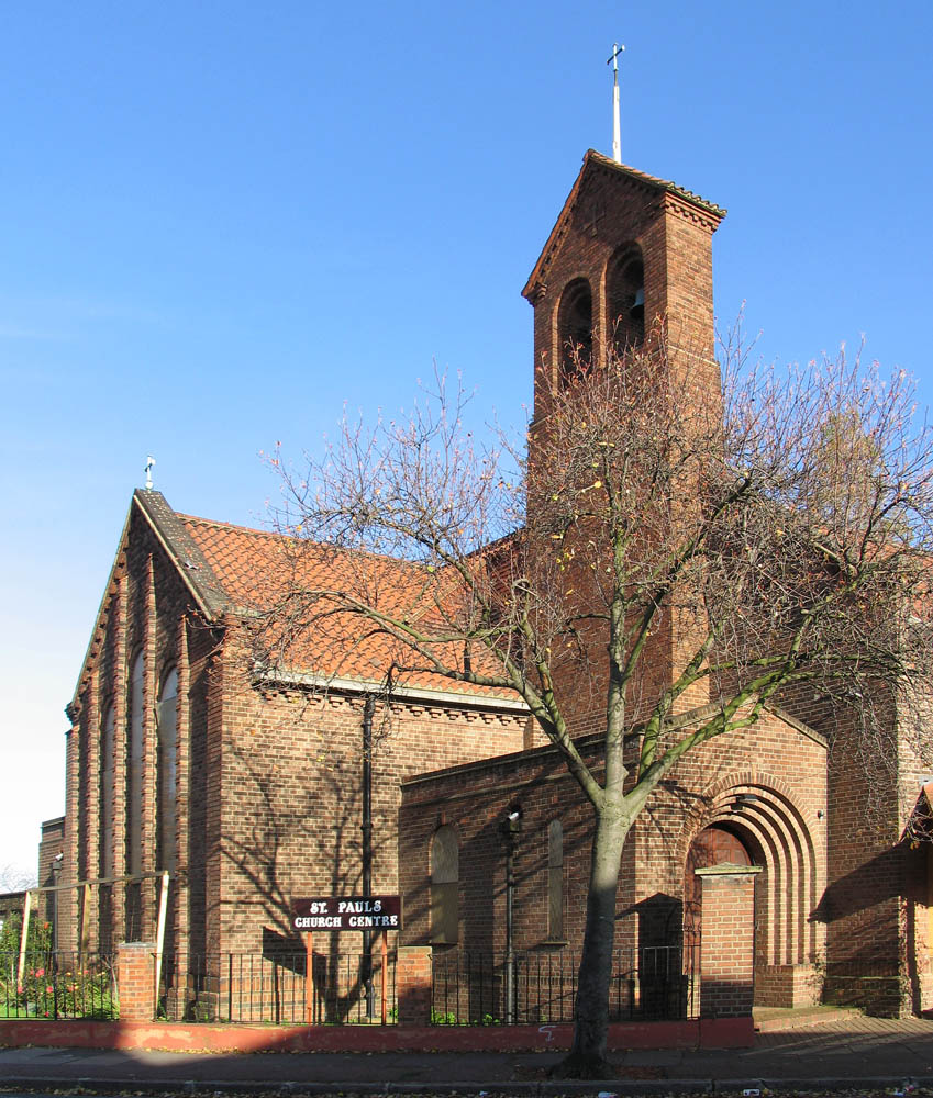 St Paul, Burges Road, London E6